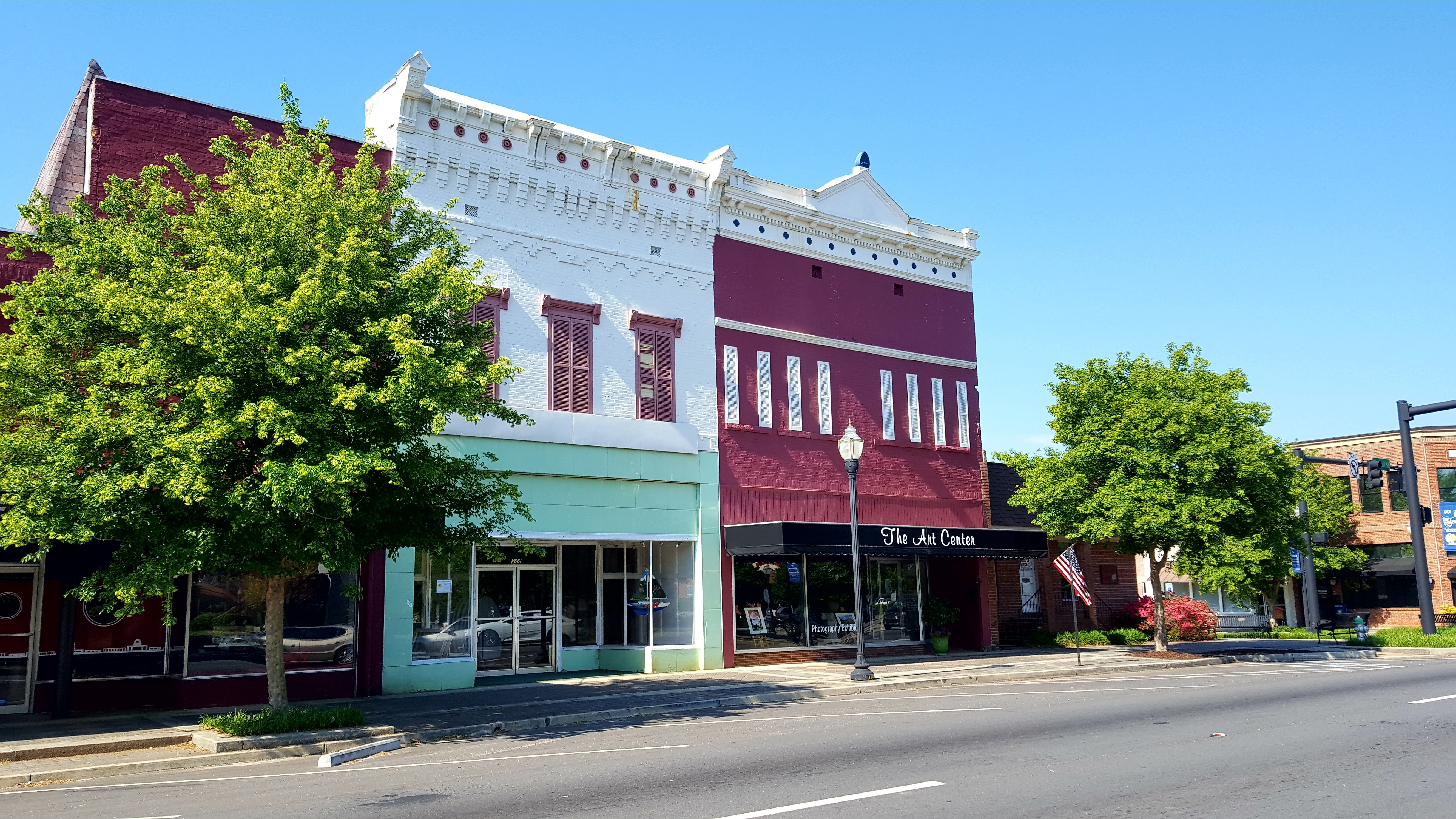 Hartwell Commercial Historic District